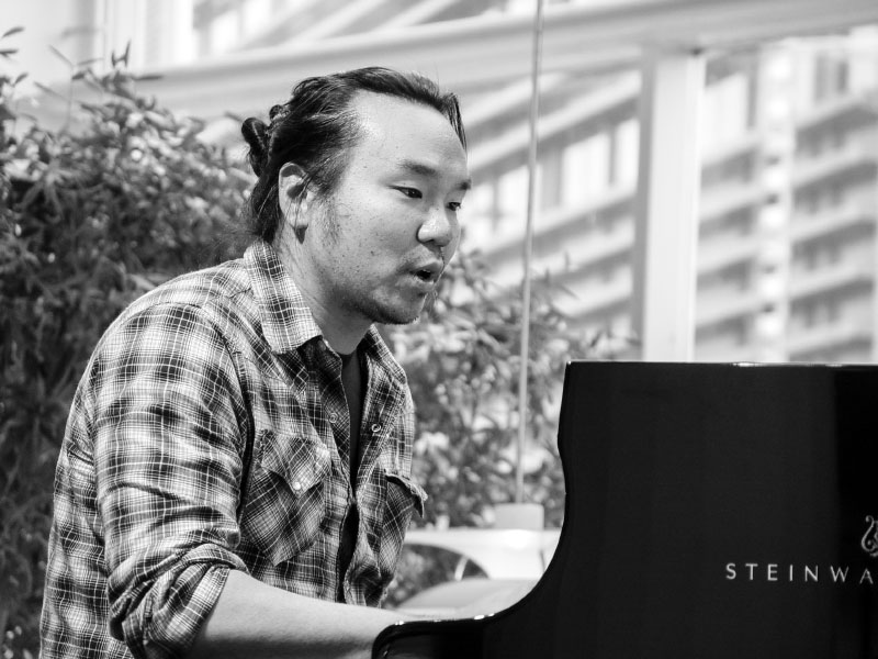 John Chin in Aarhus Denmark 2006